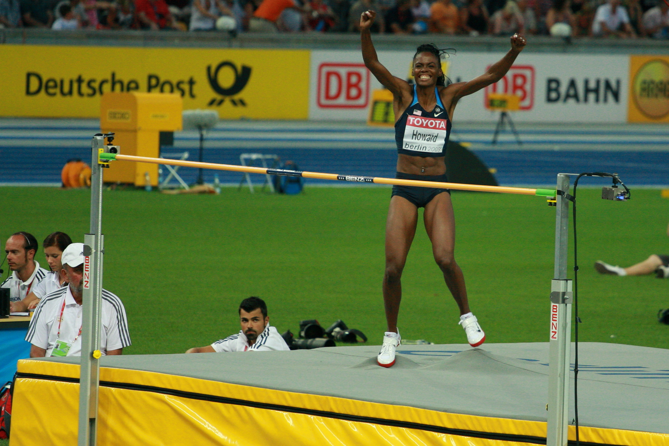 High Jump Final